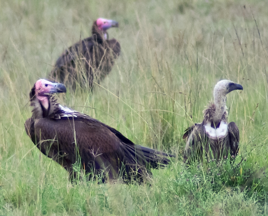 Two Lappet-faced Vultures, Torgos tracheliotus (left) and an African White-backed Vulture, Gyps africanus, Masai Mara Game Reserve, Kenya. The time stamp is 10 hours too early